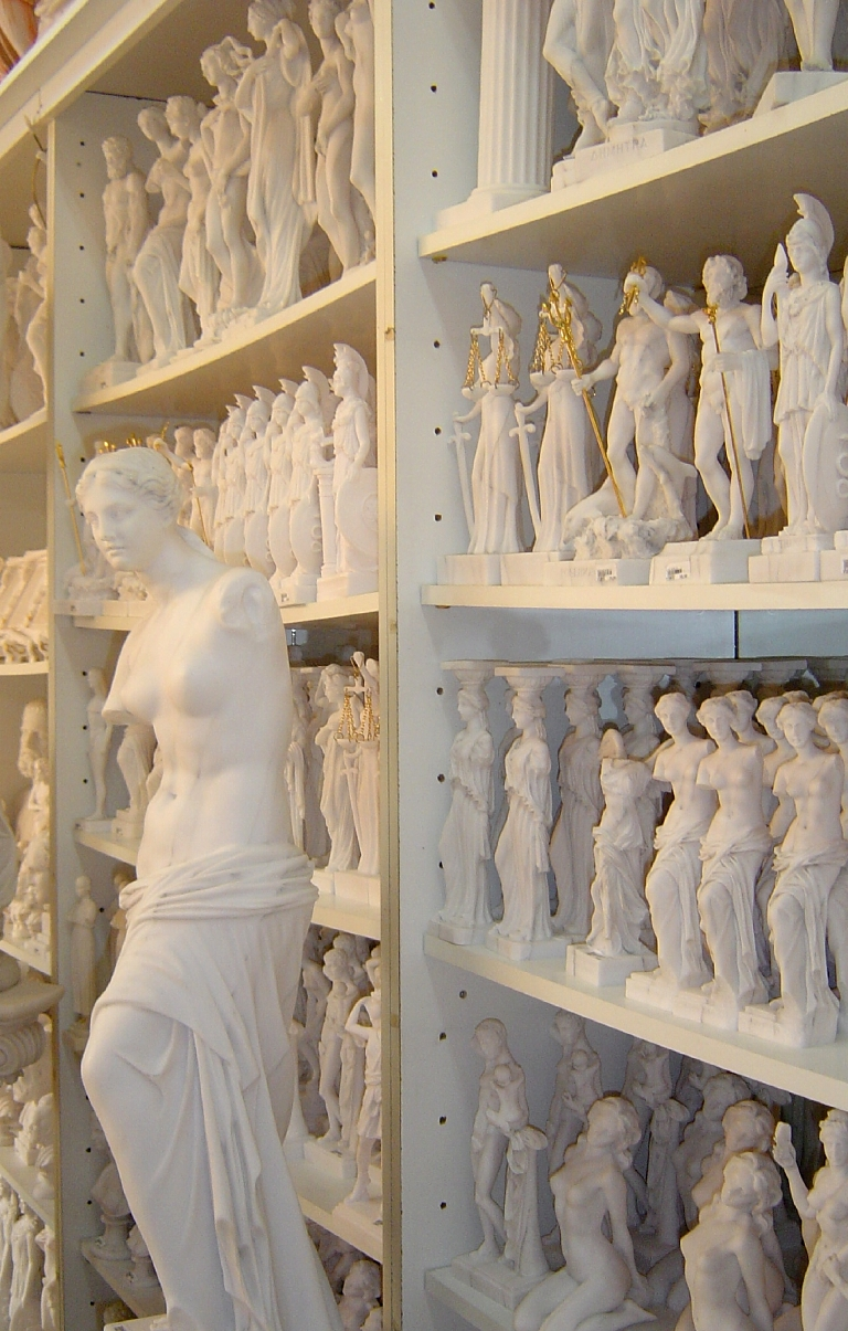 Souvenir Super Market in Athens, Greece taken Aug 14, 2005 by Pitichinaccio